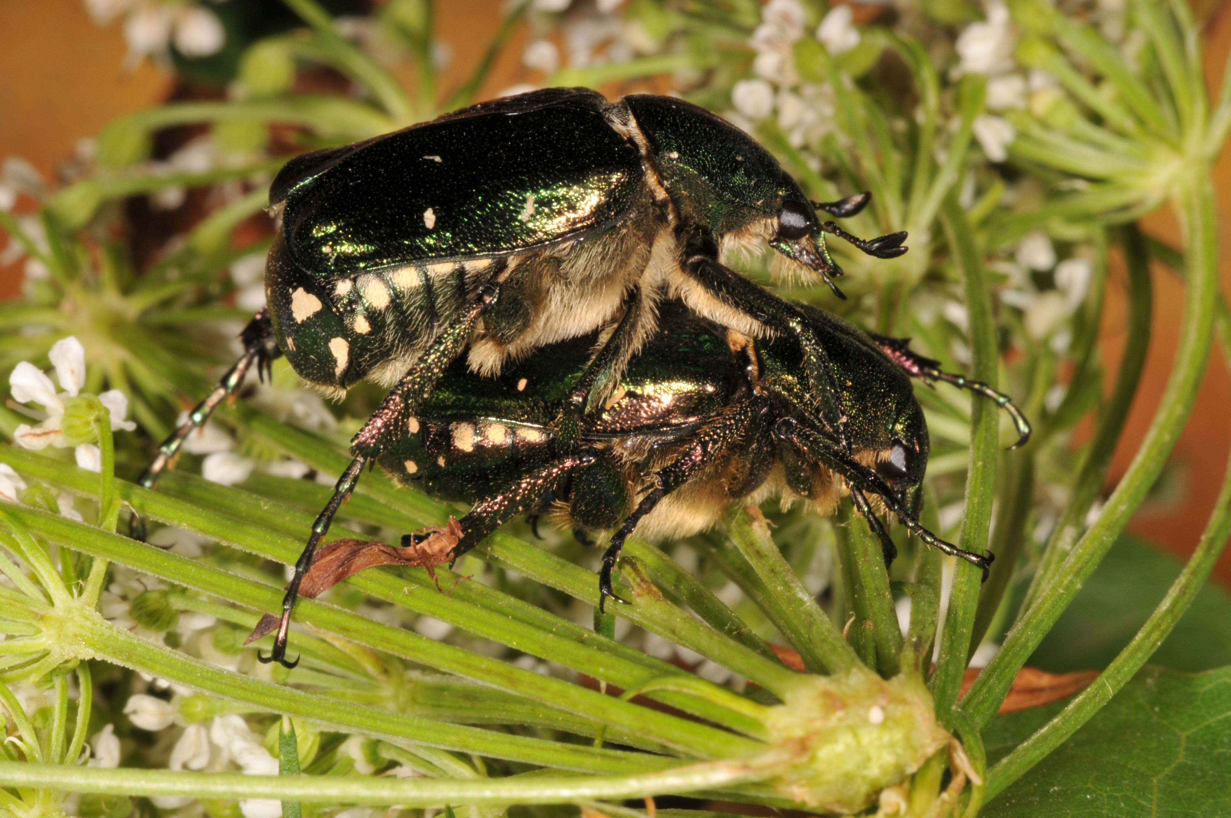 Gnorimus nobilis, Croatia, Istria, Nature park Učka